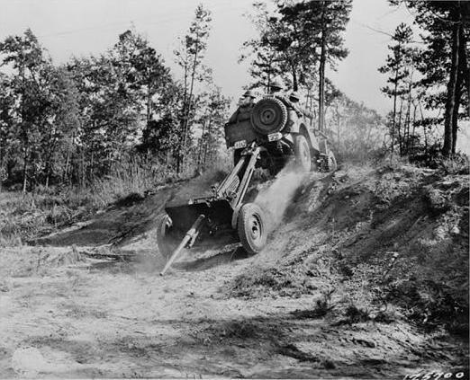 Description: Wadesboro, North Carolina. Jeep on maneuvers crossing rough terrain pulling a thirty-seven millimeter anti-tank gun. Battery D of the Forty-four Division Anti-tank, Second Corps. Remark: M3 37 mm AT gun. Square fenders indicate Bantam BRC-40 jeep. Created/published 1941 Nov. Image source: U.S. Army Signal Corps.